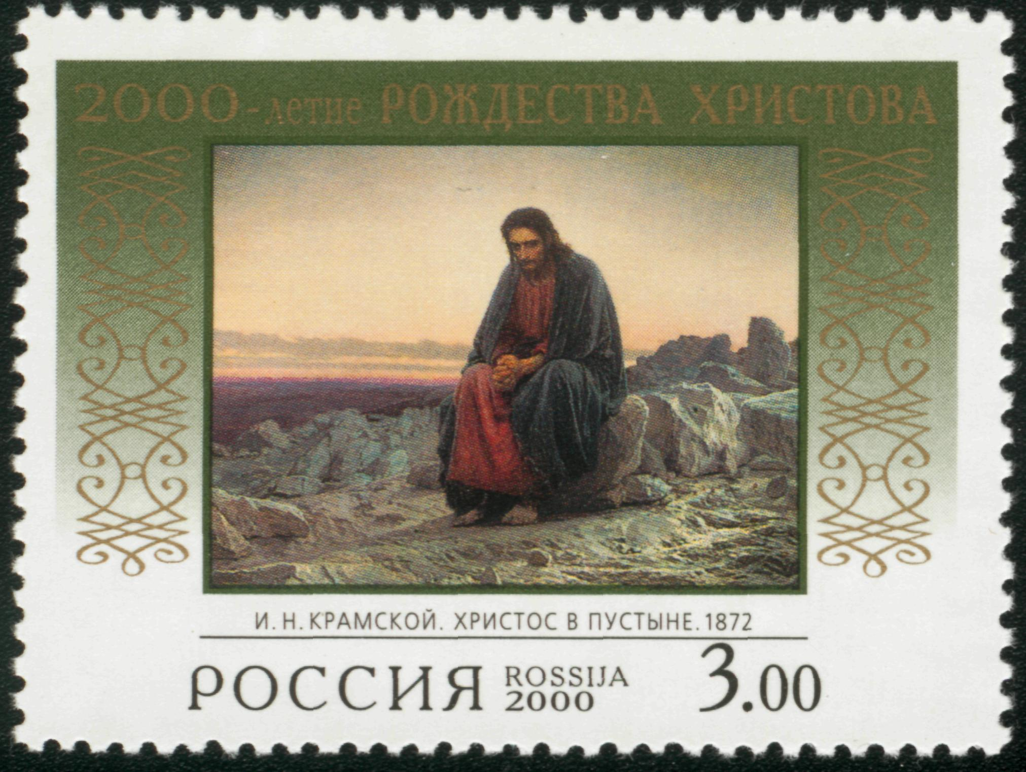 Christ in the desert by Ivan Kramskoi. Stamp of Russia, 2000, a commemorative issue for 2000th Anniversary of the Birth of Jesus